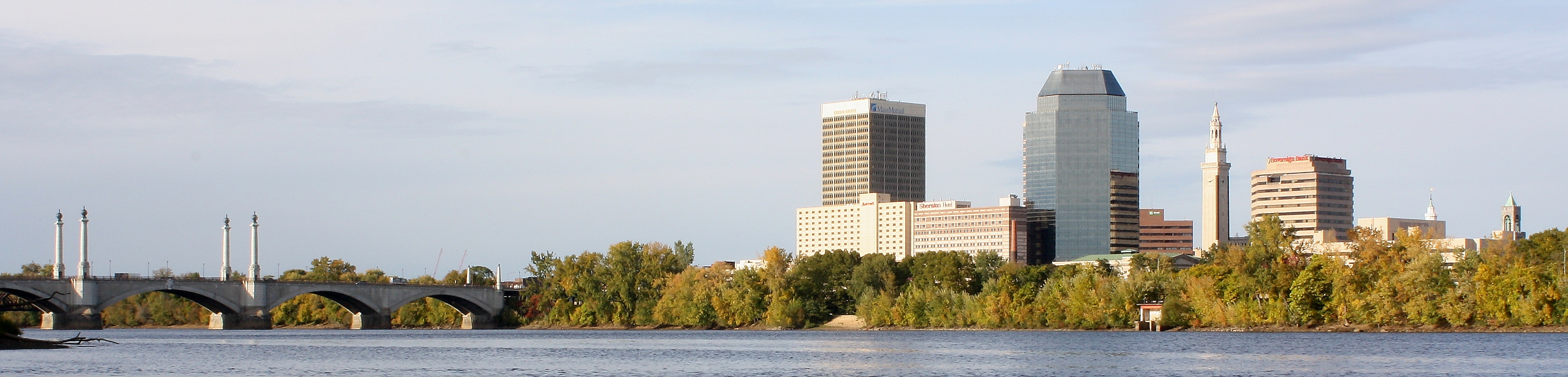 Downtown Springfield, MA